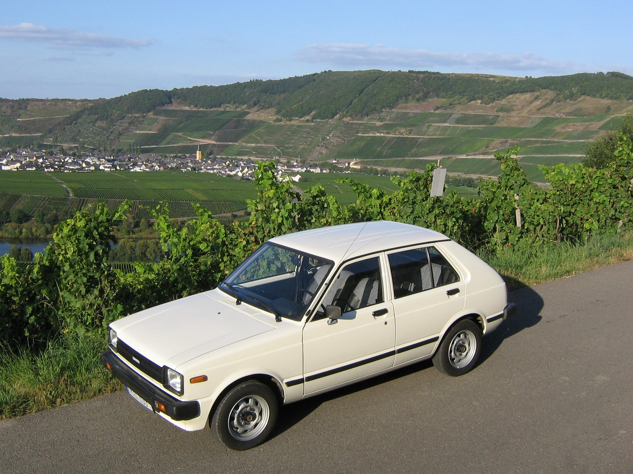 Toyota Starlet KP60 P60